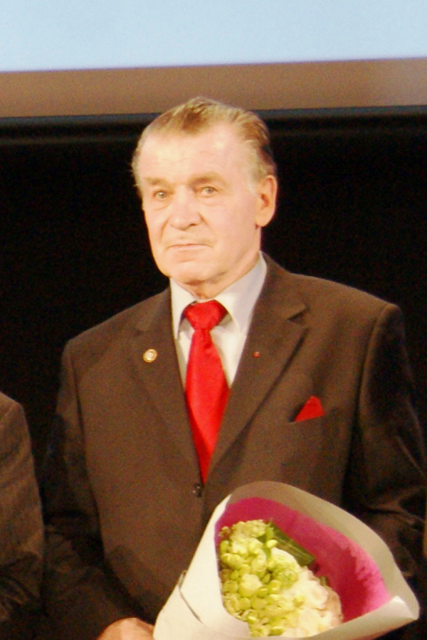 The former Soviet astronaut Aleksandr Serebrov at UNESCO for the 50th anniversary of Yuri Gagarin’s journey into outer space (12 April 1961)